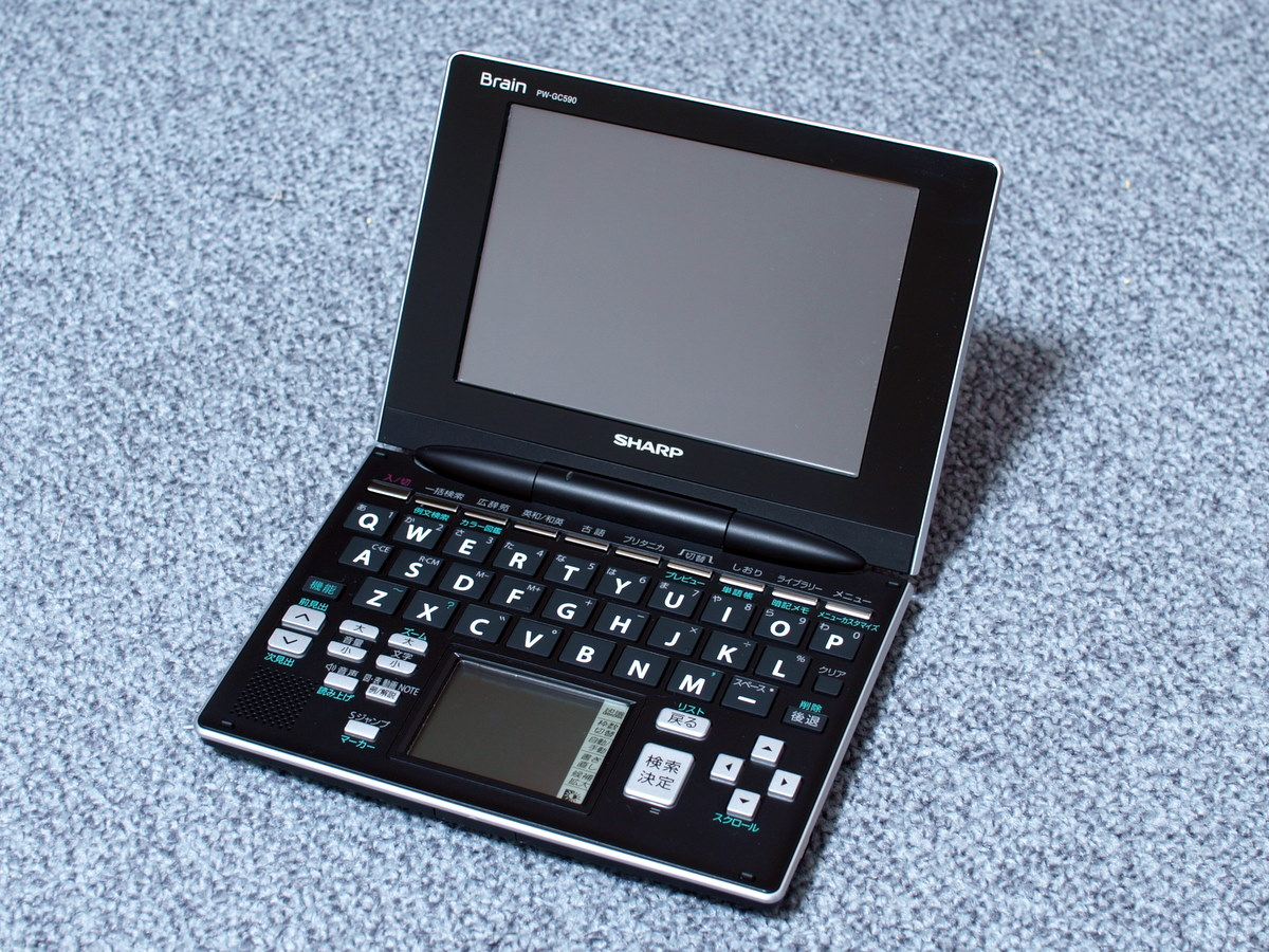 SHARP Brain PW-GC590